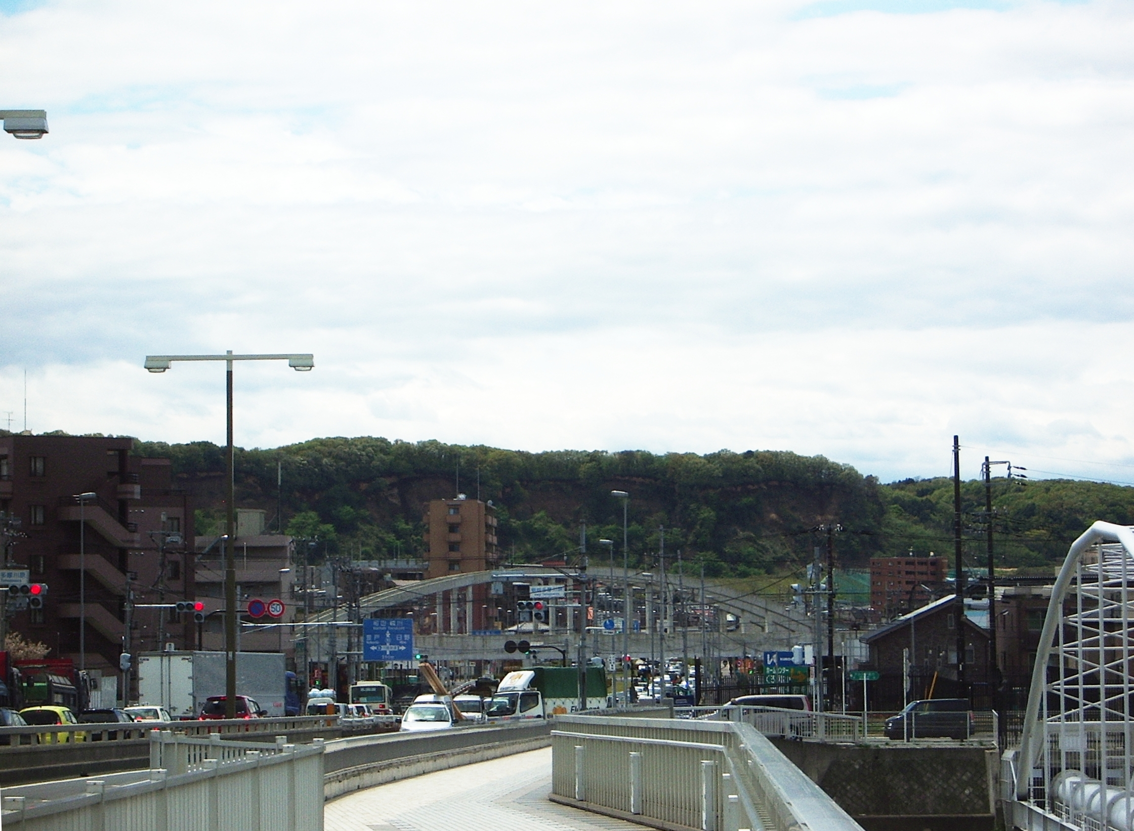 Minamiyama from Tamagawarabashi